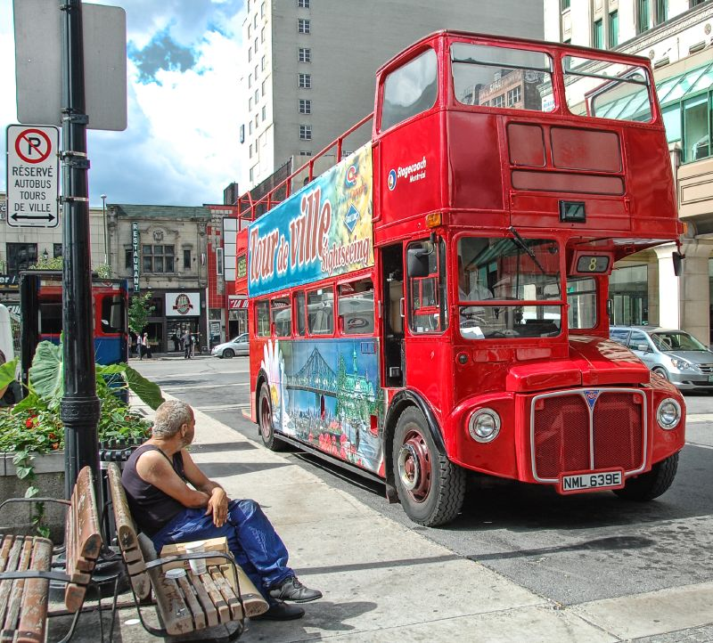 Montreal Tourist Bus